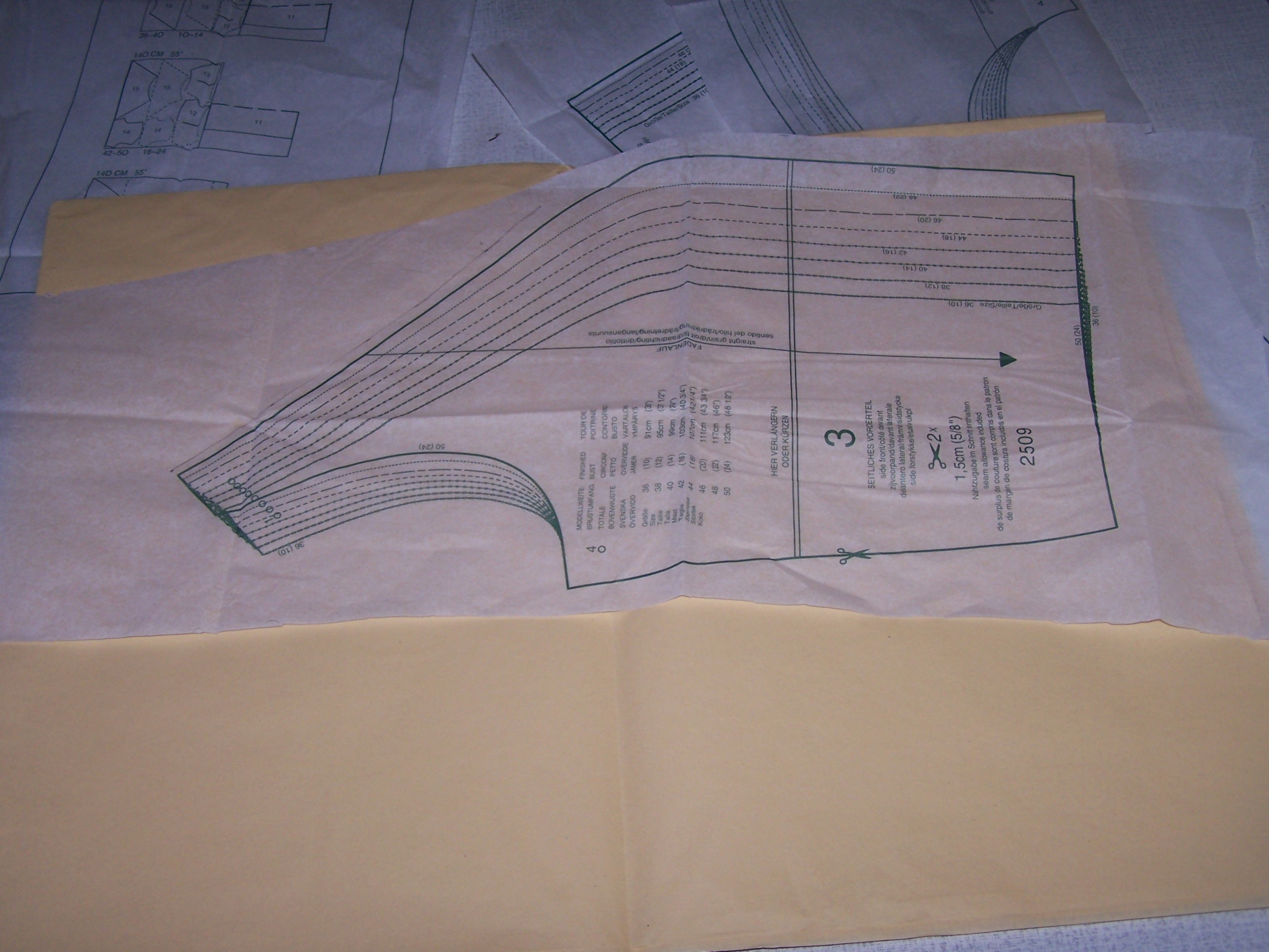 Sewing pattern Part of a pattern to make a dress. Pictures taken while making a dress, taken in March 2006